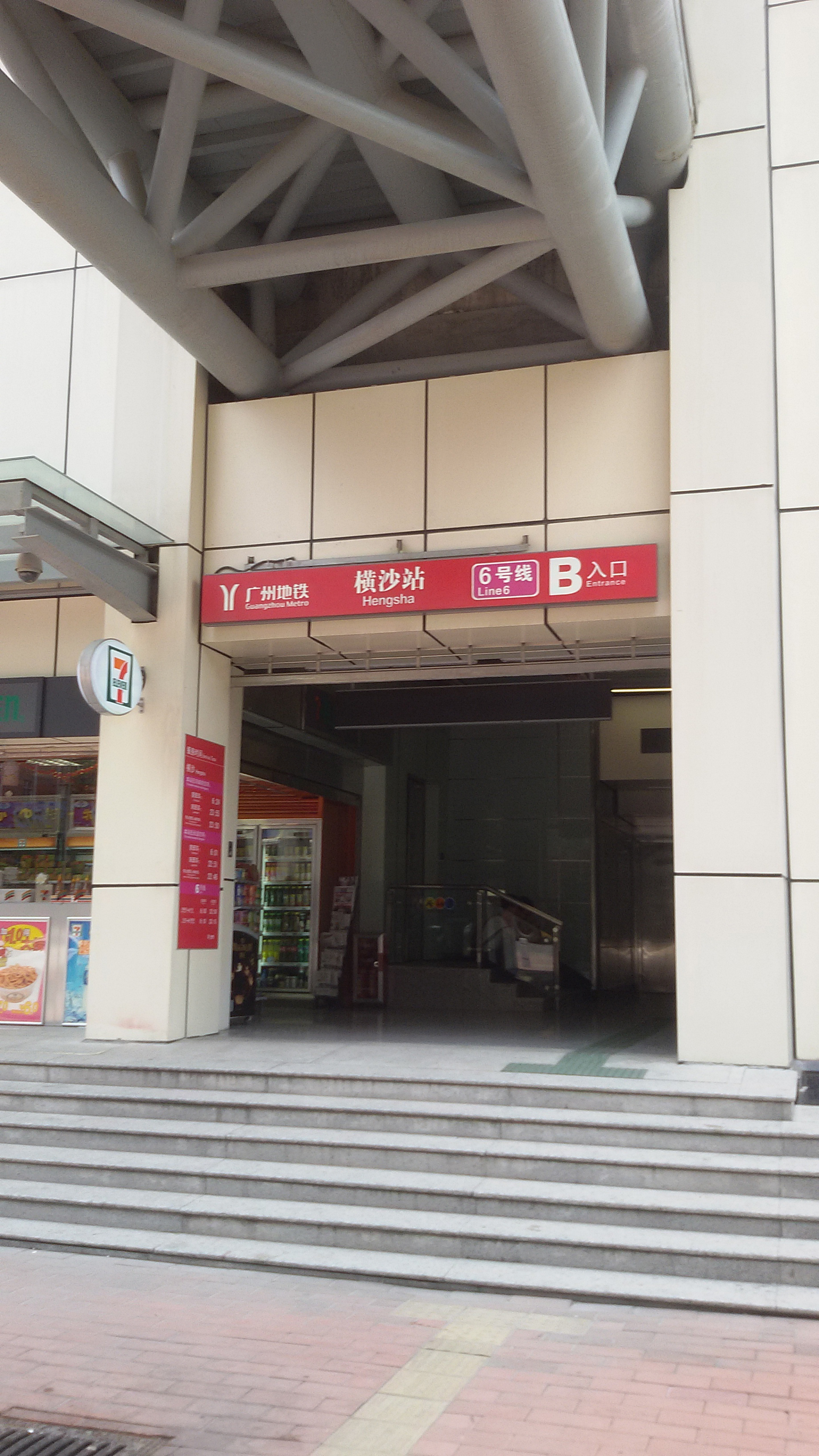 Exit B for Hengsha Station, Guangzhou Metro. 粵語: 廣州地鐵，橫沙站嘅B出入口。